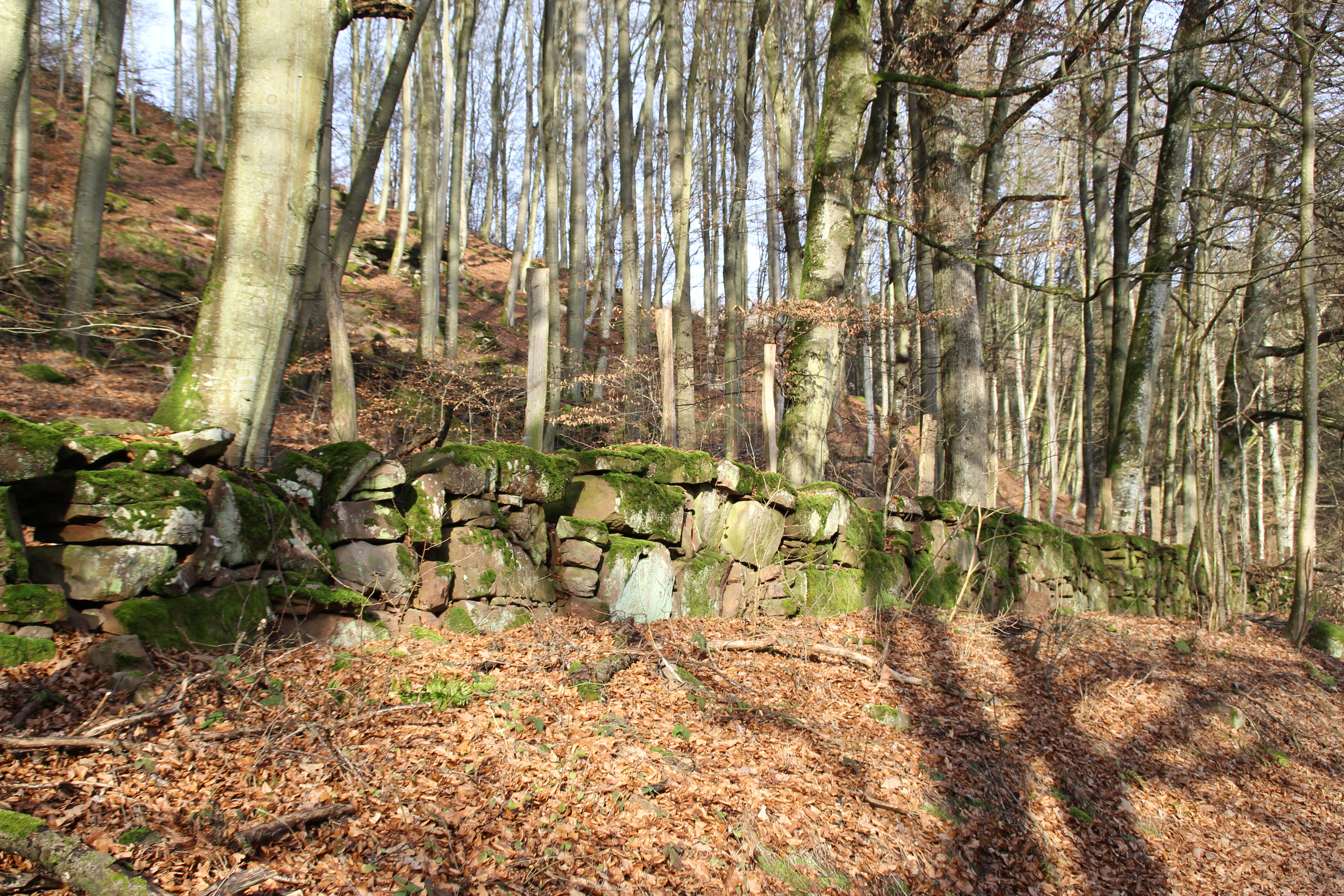 Historic wall as a boundary at the Fürstlich Löwensteinscher Park near Esselbach in the Landkreis Main-Spessart, Bavaria